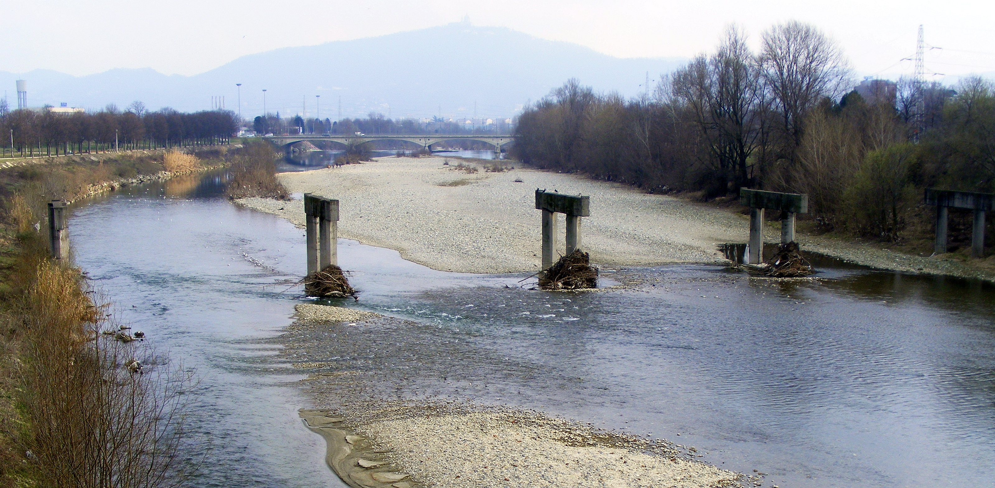 Stura di Lanzo creek in Turin (Italy); on the background Superga hill Piemontèis: La Stura 'd Lans a Turin